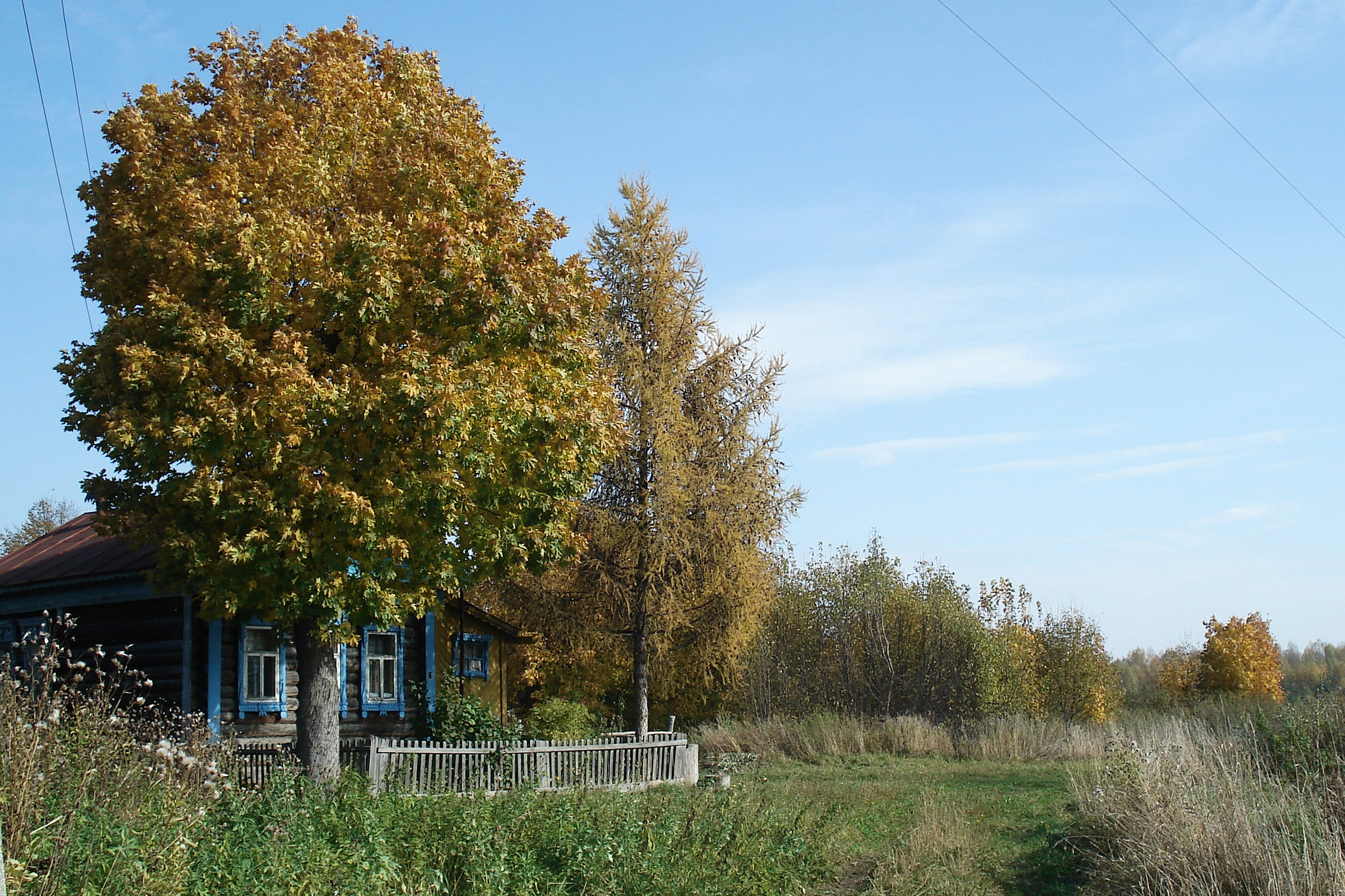 The Village of Khvoschi. Nizhegorodsksya oblast. Russia.